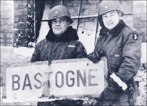 Brigadier General Anthony C. McAuliffe, left, and then-Col. Harry W.O. Kinnard II at Bastogne, after victory battle.